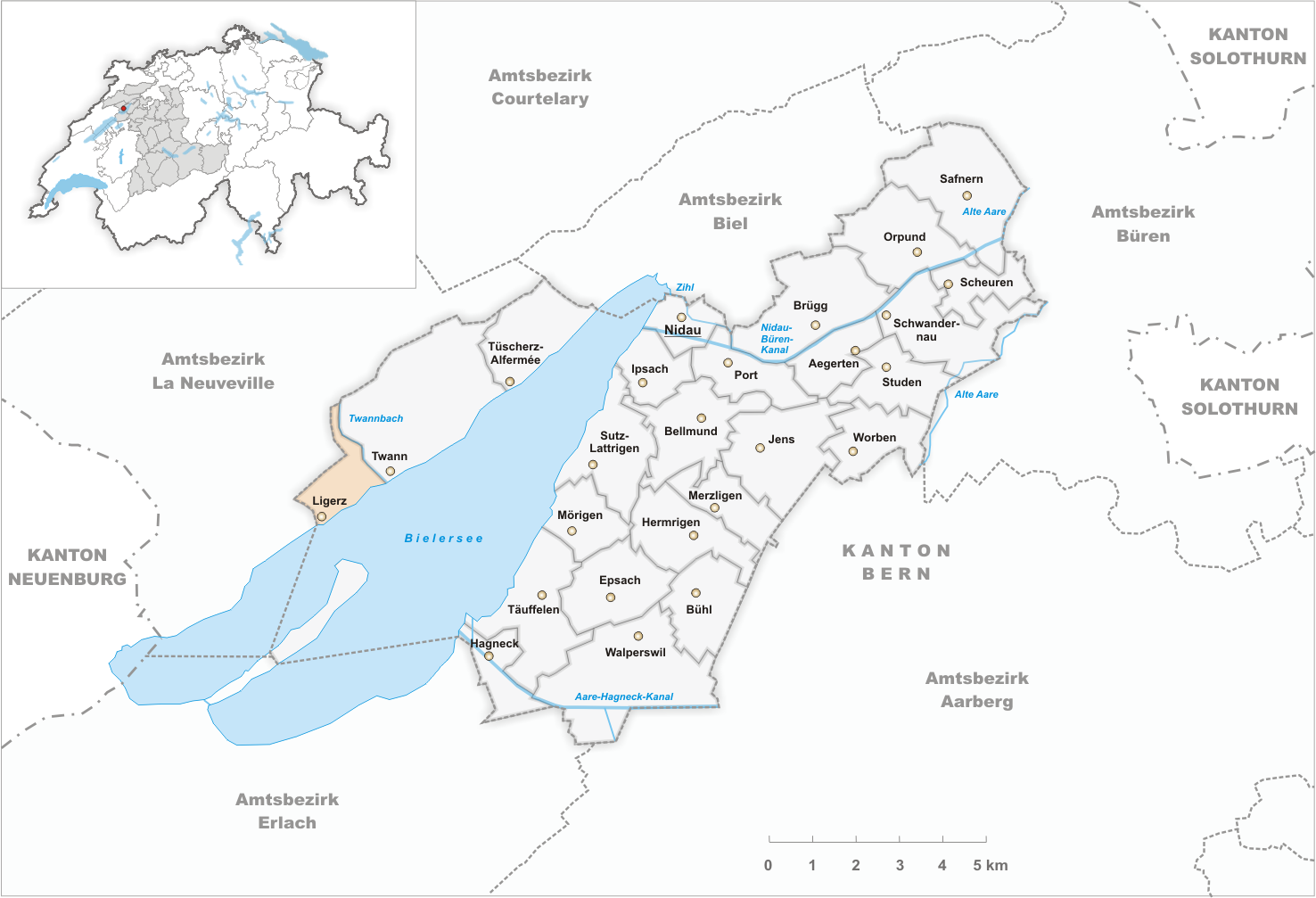 Municipality Ligerz